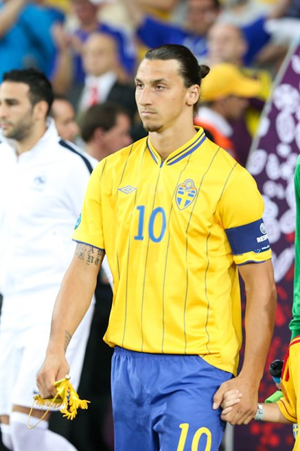 Zlatan Ibrahimović at the Euro 2012 match against France